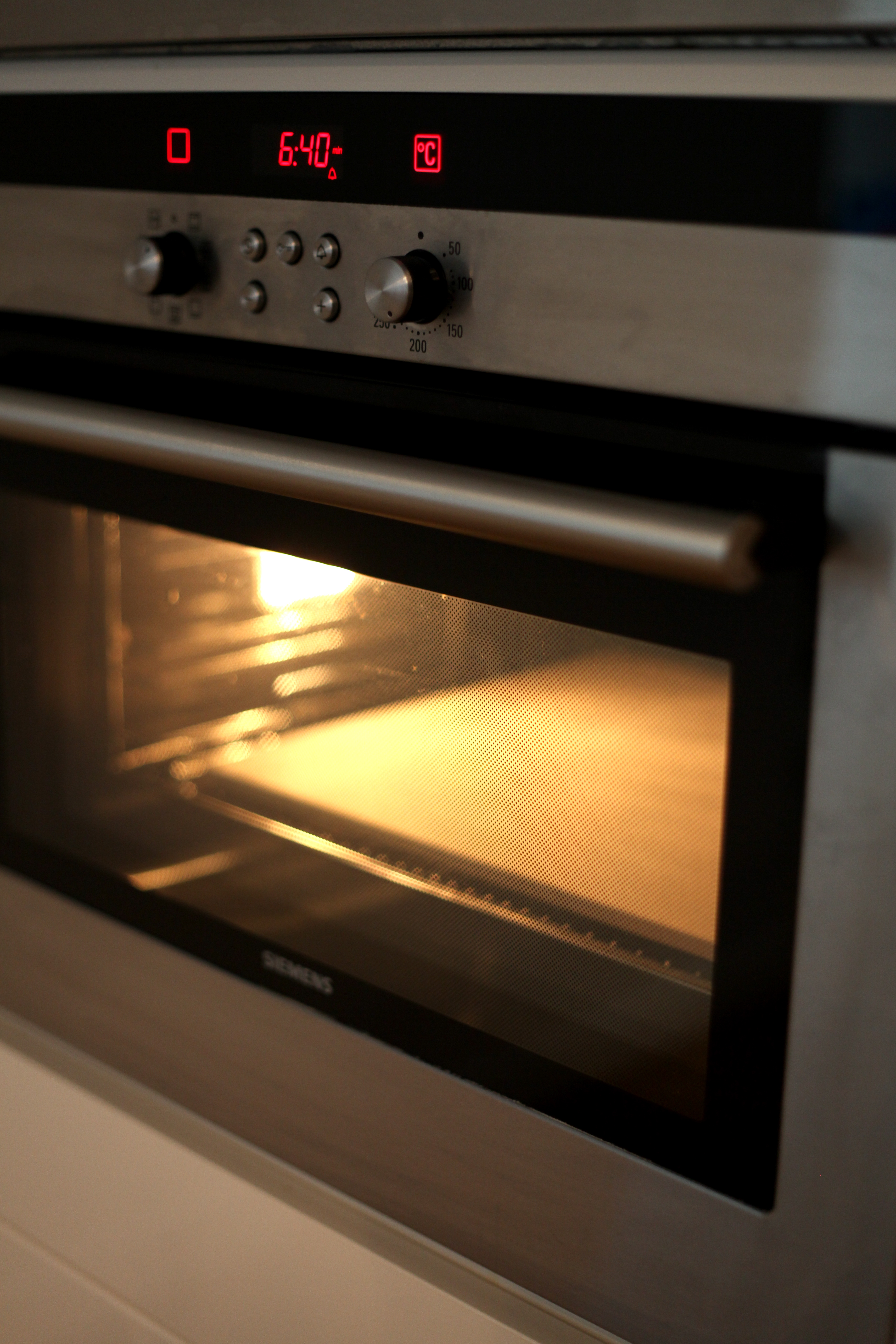 The Sassafras Superstone Baking Stone from Chicago, for 'even heat distribution' :)